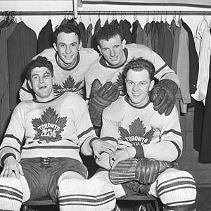 Toronto Maple leafs players Vic Lynn, Gus Mortson, Ted Kennedy and Bud Poile (l-r) in the Toronto Maple Leafs dressing room during the 1946-47 NHL season.